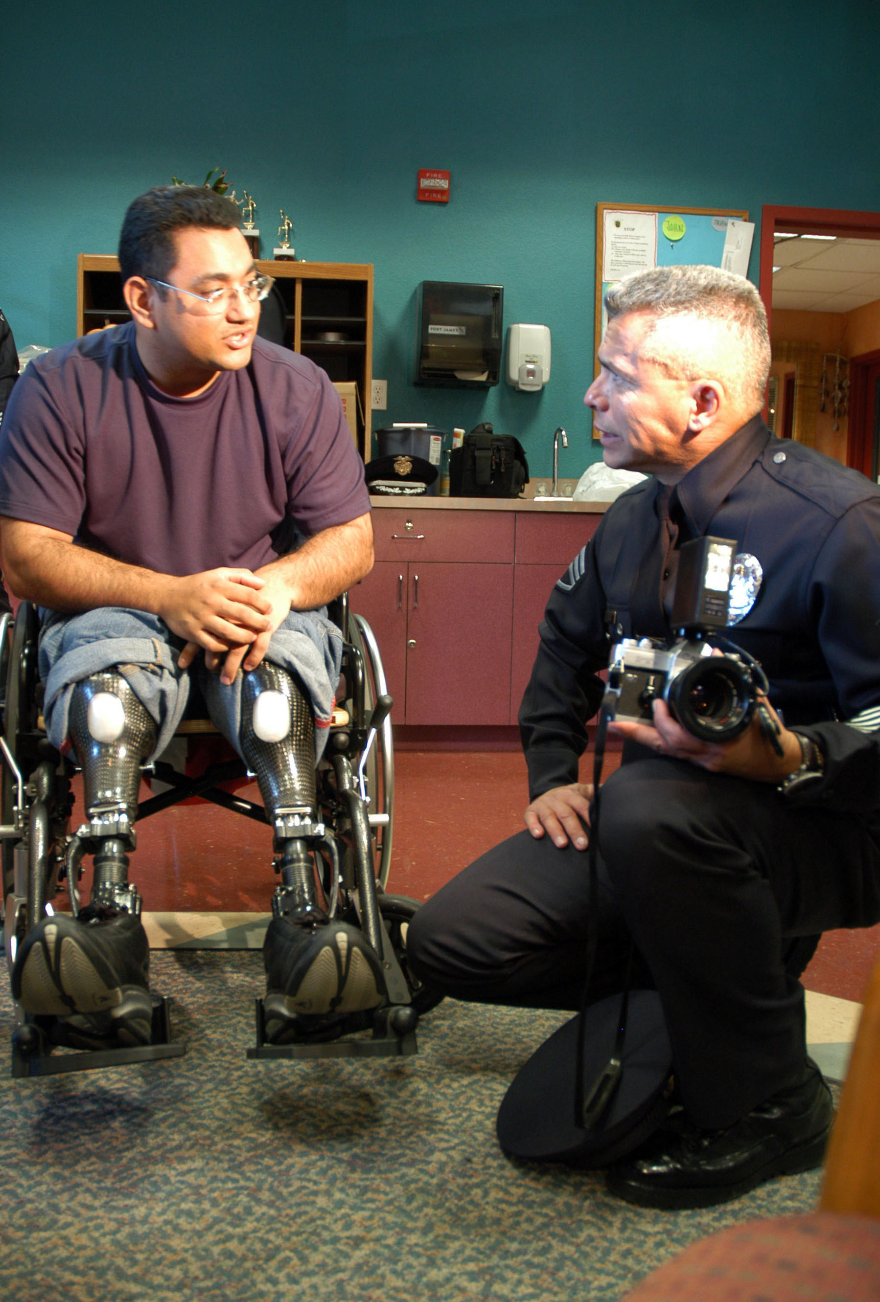 San Diego (Dec. 6, 2005) – An injured Sailor speaks with a Los Angeles Police Department (LAPD) officer during a visit to Naval Medical Center San Diego (NMCSD). Approximately 150 LAPD officers drove in squad cars, motorcycles and were flown in by helicopter to handout the truckloads of presents to NMCSD patients and family members staying at the Fisher House. U.S. Navy photo by Journalist 3rd Class S. C. Irwin (RELEASED)